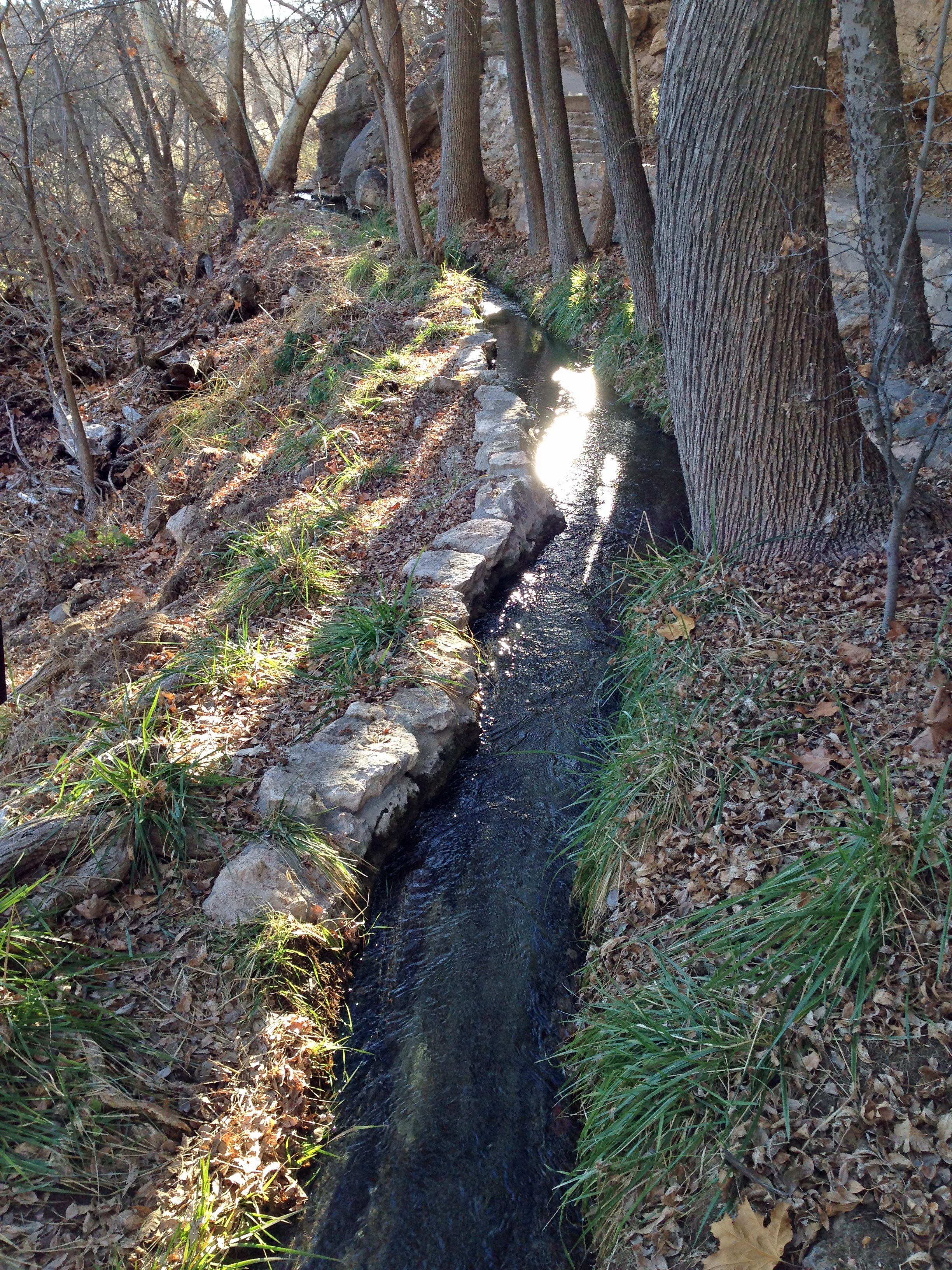 A canal at Montezuma Well in Montezuma Castle National Monument in Arizona.